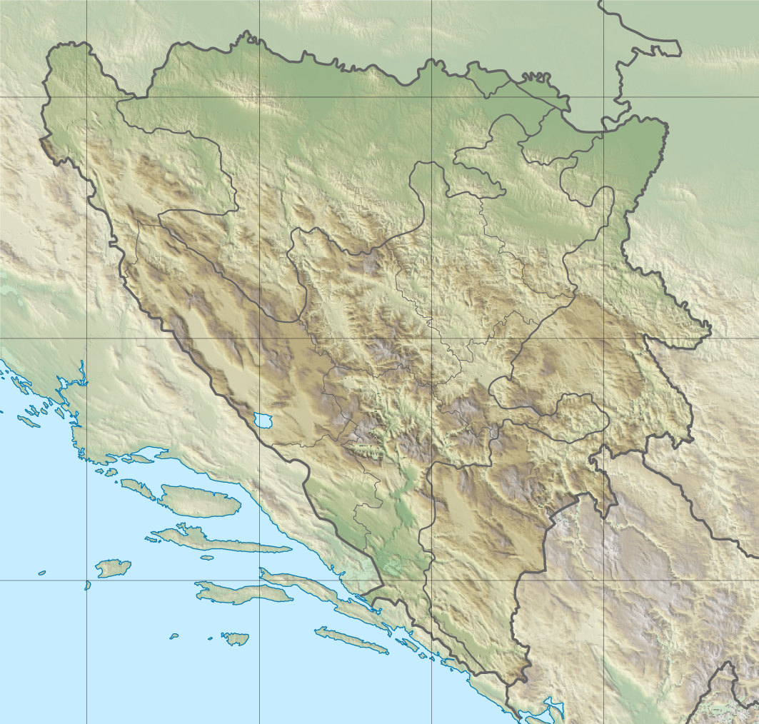 Blank relief location map of Bosnia and Herzegovina Equirectangular projection, N/S stretching 140 %. Geographic limits of the map: N: 45.4° N S: 42.4° N W: 15.5° E E: 19.9° E